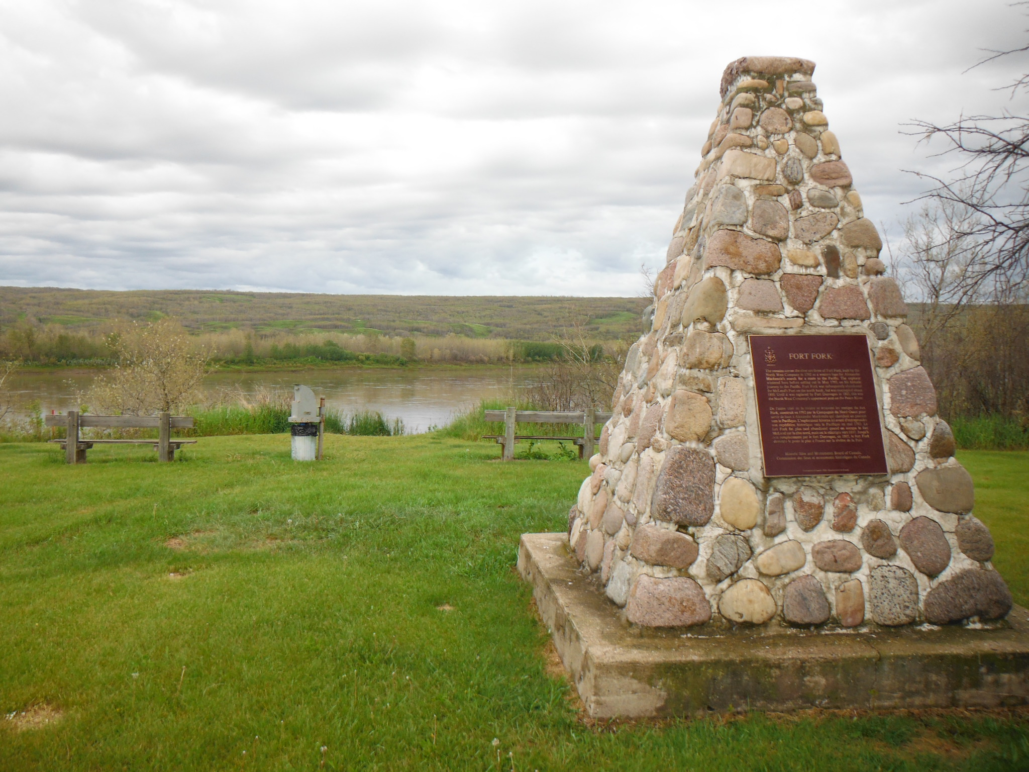 The Historic Sites and Monuments Board of Canada cairn and plaque commemorating Fort Fork NHS, near Peace River, Alberta. With the actual site across the river.